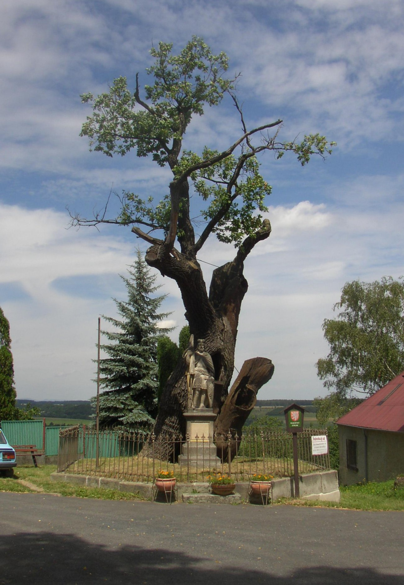 Saint Wenceslas' Oak in Stochov, Czech Republic.